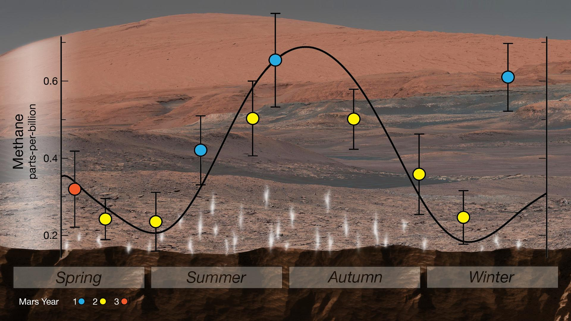 PIA22328: Mars' Mysterious Methane NASA's Curiosity rover used an instrument called SAM (Sample Analysis at Mars) to detect seasonal changes in atmospheric methane in Gale Crater. The methane signal has been observed for nearly three Martian years (nearly six Earth years), peaking each summer. This work was funded by NASA's Mars Exploration Program for the agency's Science Mission Directorate (SMD) in Washington. Goddard provided the SAM instrument. JPL built the rover and manages the project for SMD. More information about Curiosity is online at and